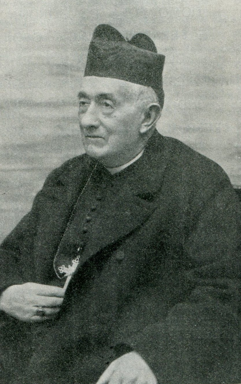 Gregorio Cardinal Aguirre (1835-1913), Arcbishop of Toledo, Spain.